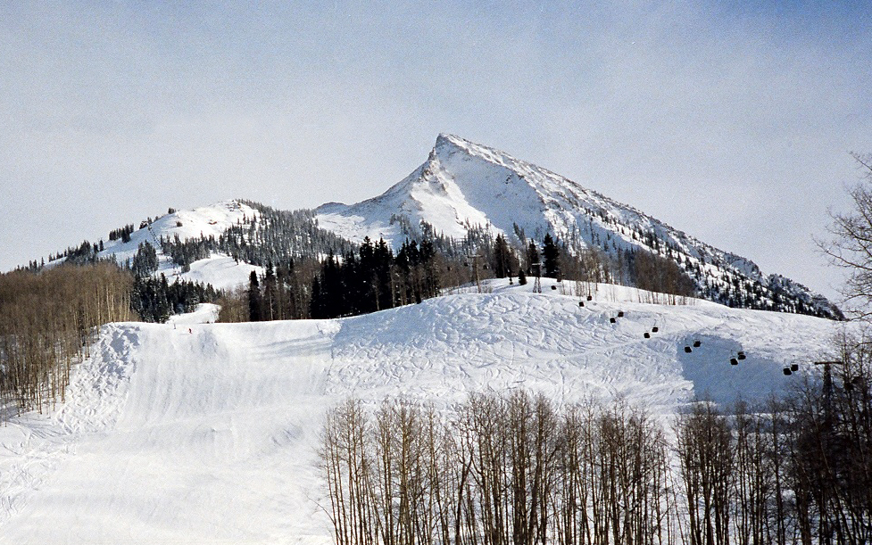 Mount Crested Butte located at 38.884° -106.944° in Crested Butte, Colorado, United States.